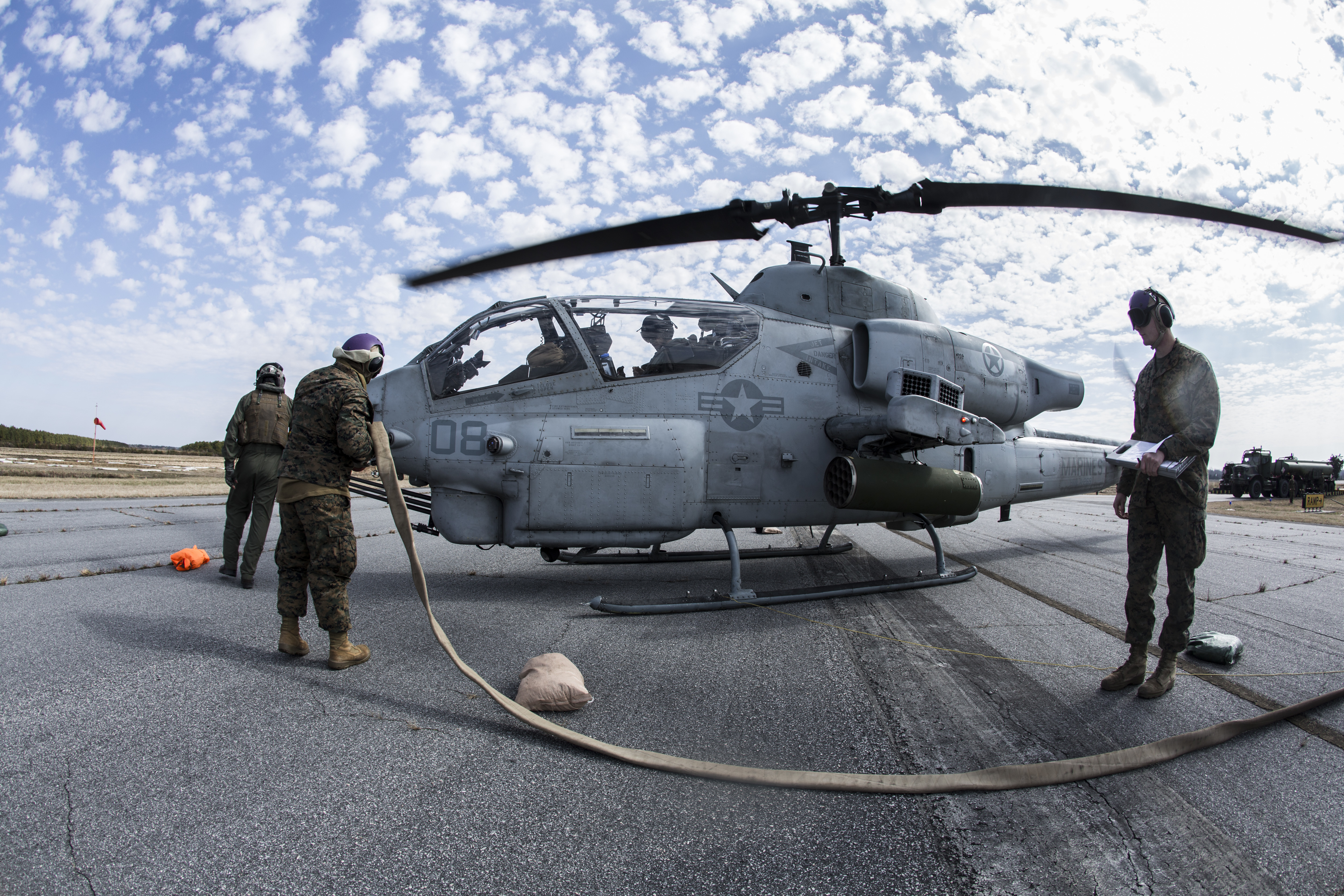 U.S. Marines assigned to Marine Wing Support Squadron (MWSS) 272 refuel an AH-1W Cobra assigned to Marine Aircraft Group (MAG) 29 during a forward arming and refueling point exercise on the Hyde County Airport near Wanchese, N.C., Feb. 12, 2015. MWSS-272 and MAG-29 performed the exercise in preparation for an upcoming weapons tactics instructor course. (U.S. Marine Corps photo by Lance Cpl. Jodson B. Graves/Released)